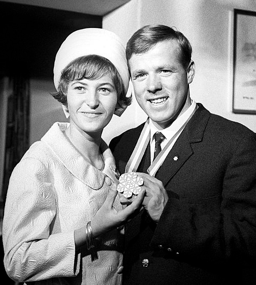 Italian skier Carlo Senoner beside his wife Angelica showing the gold medal that he won for the slalom skiing at the Alpine World Ski Championships of Portillo in Chile. Selva di Val Gardena, August 1966